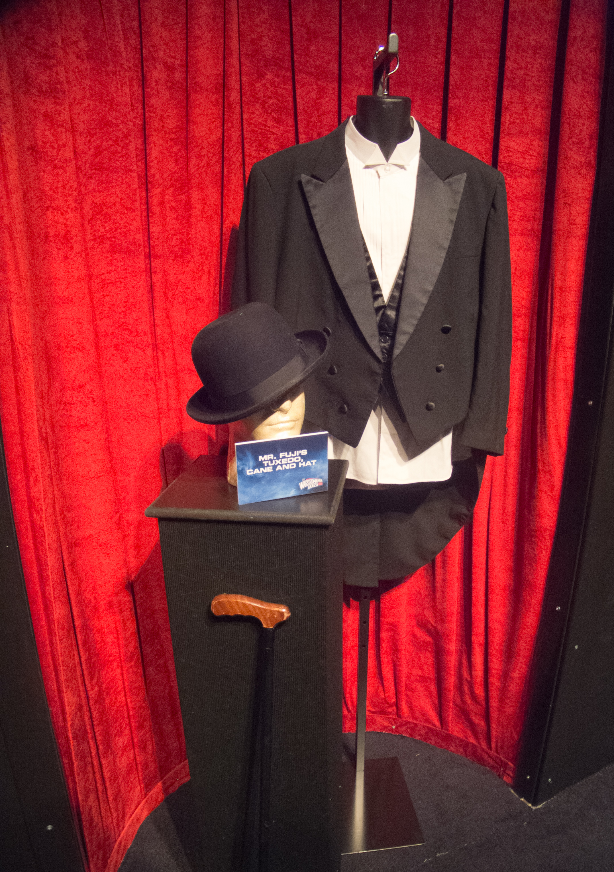 WWE Fan Axxess - Classic Memorabilia/Ring Gear